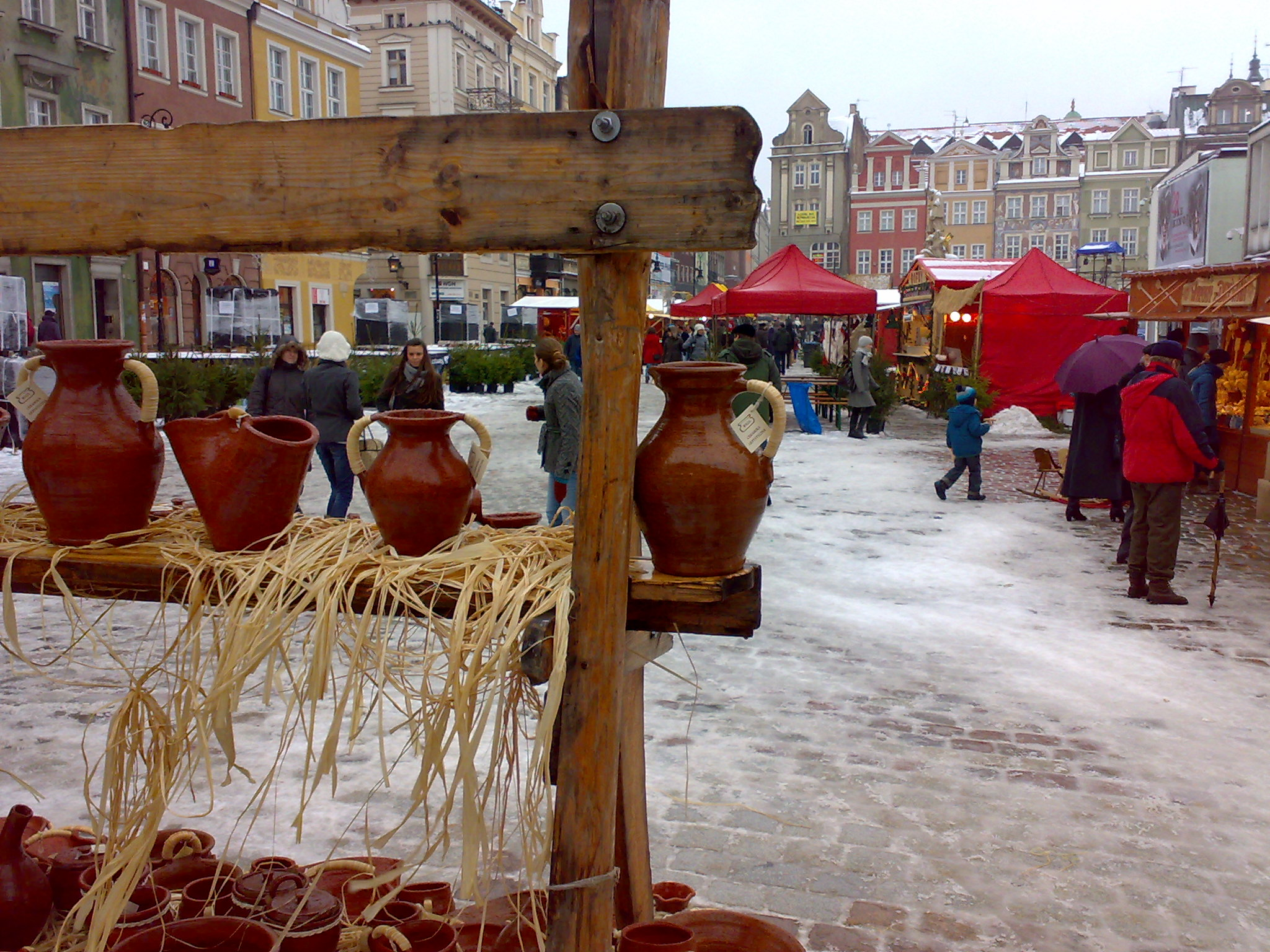 Betlejem in Poznan, Advent 2010.